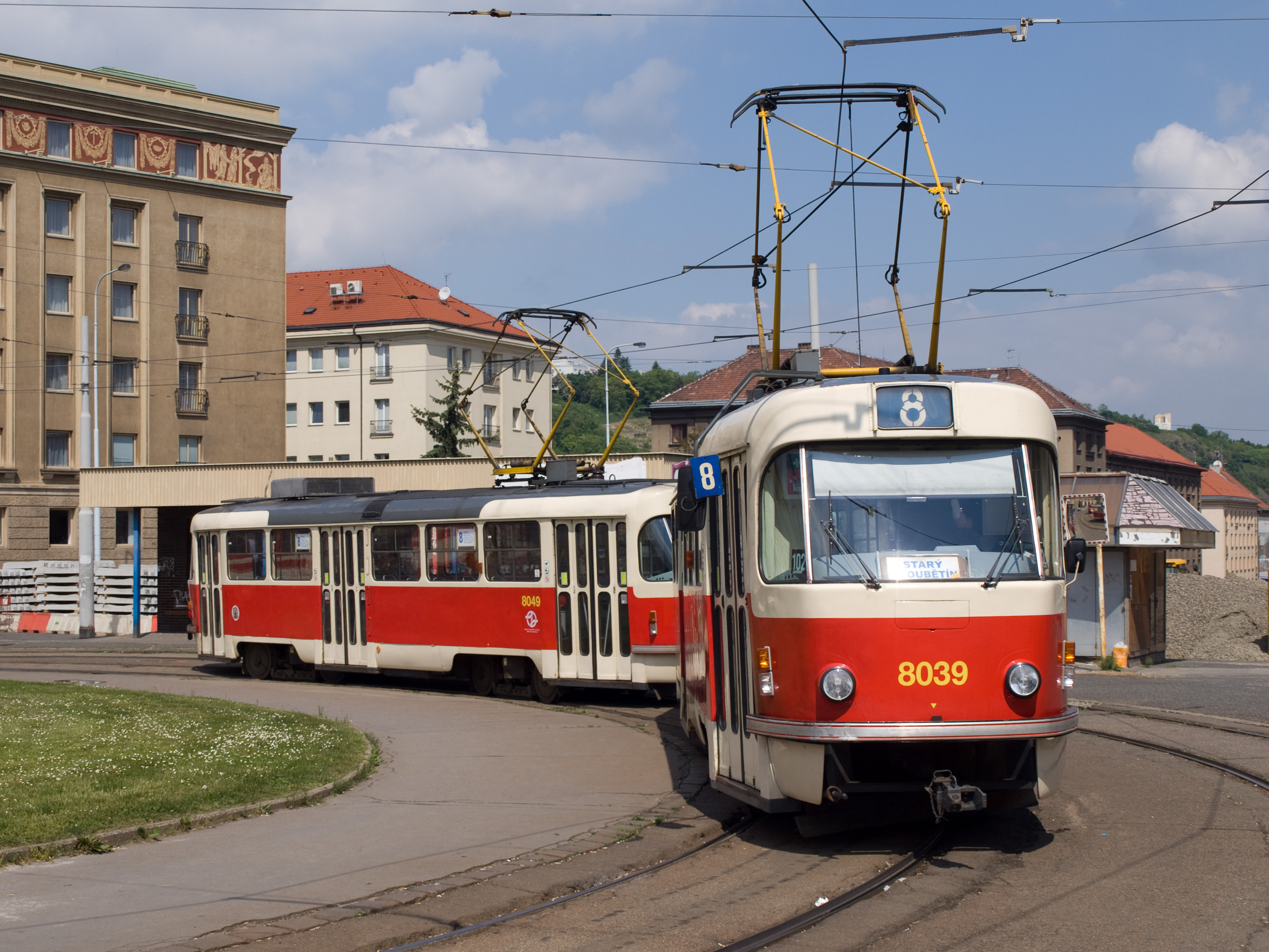 Tatra T3R.PLF at Zelená tram stop, Prague